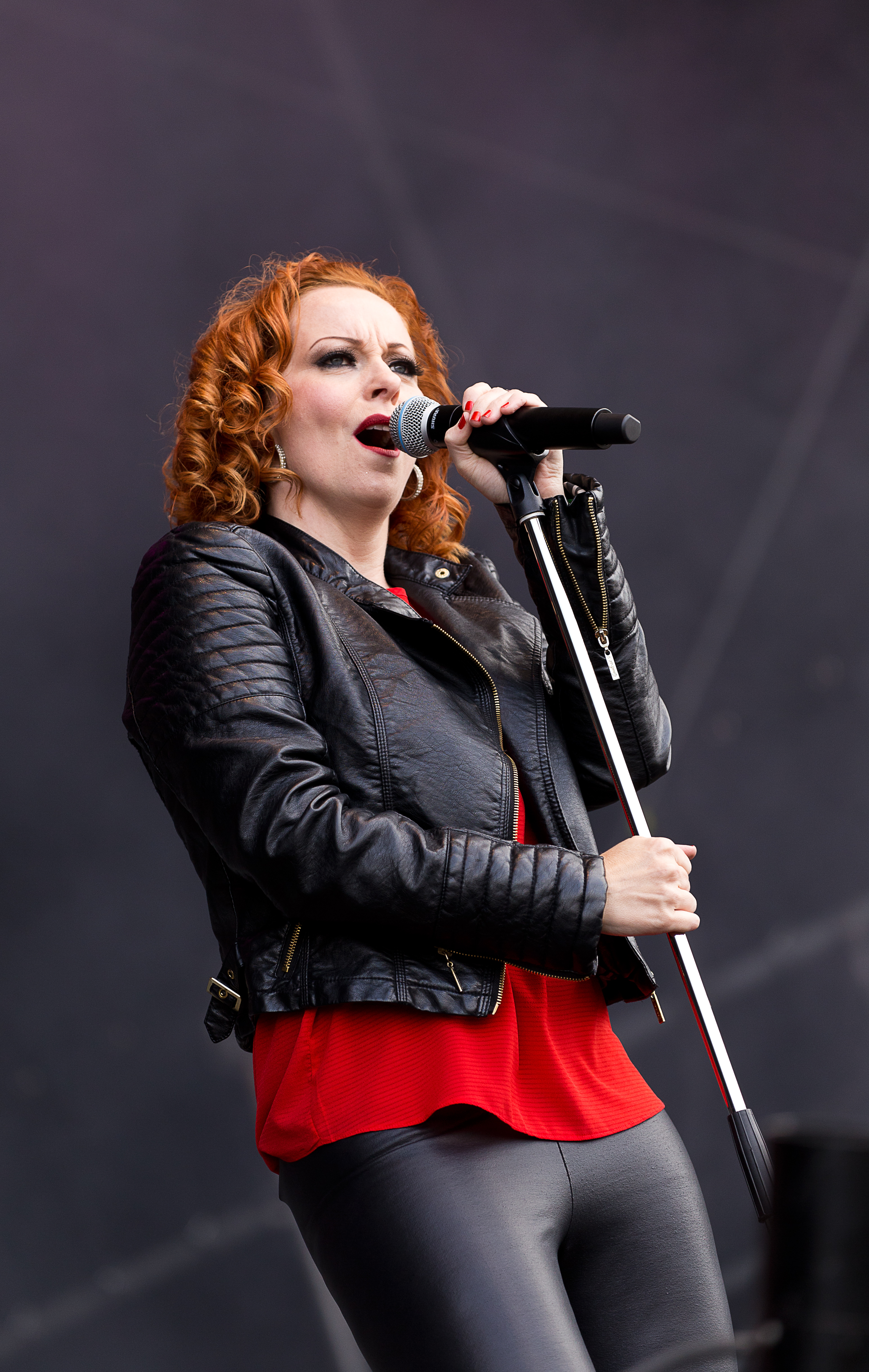 The Dutch progressive metal band The Gentle Storm at the Rockharz Open Air 2015 in Ballenstedt/Germany.